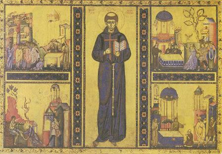 st. francis & 4 posthumous miracles, unknown artist in assisi, 2nd 3rd of 13th century Immagine:Francesco-d'Assisi.jpg